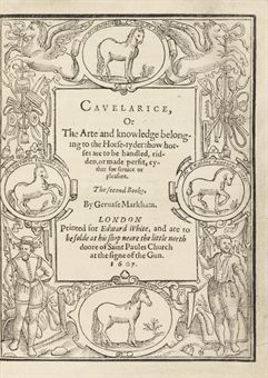 Gervase Markham, Cavelarice